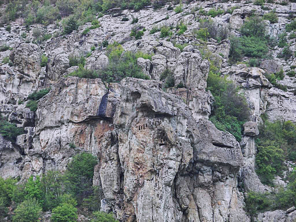 Dazhdovnica rock sanctuary BG